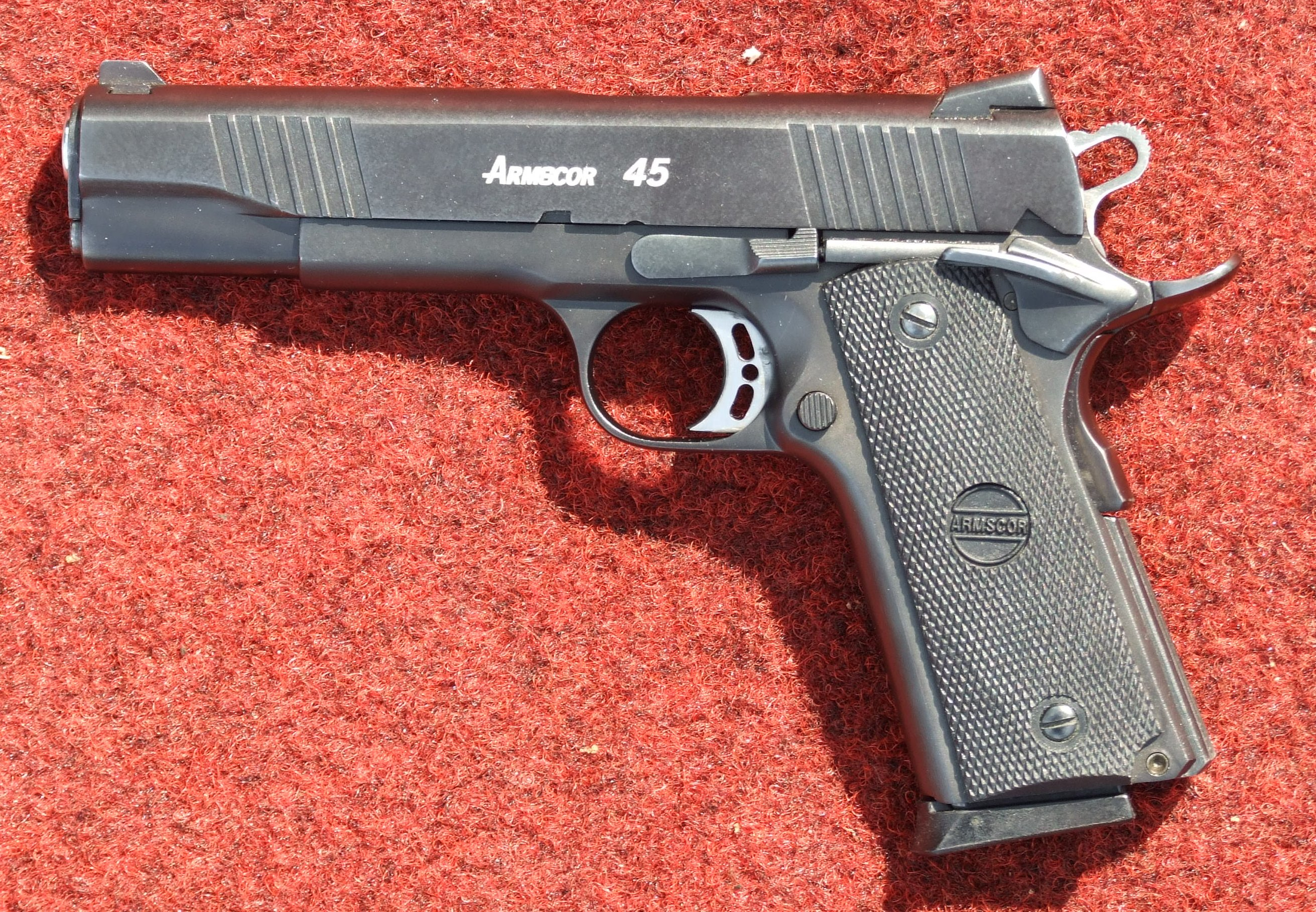 Armscor caliber 45 ACP, a clone of Colt 1911A1